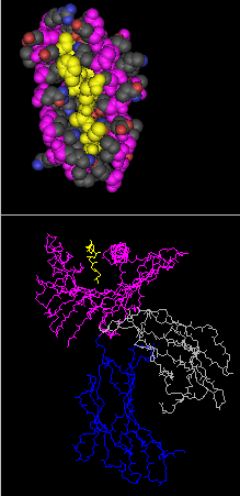 Crystal Structure Of Hla-A2402 Complexed With A Telomerase Peptide [mmdbId:37150] rendered with Cn3D=space filling, Top panel top down view of peptide (yellow)and HLA-A24 residues within 7 Angstroms of peptide. Bottom panel- side view peptide backbone with no side chains, peptide yellow, HLA-A magenta-blue, B2-microglobulin grey. Membrane attachment site is at the lower right. Structure at Reference: Cole DK, Rizkallah PJ, Gao F, Watson NI, Boulter JM, Bell JI, Sami M, Gao GF, Jakobsen BK Crystal structure of HLA-A*2402 complexed with a telomerase peptide Eur. J. Immunol. v36, p.170-179